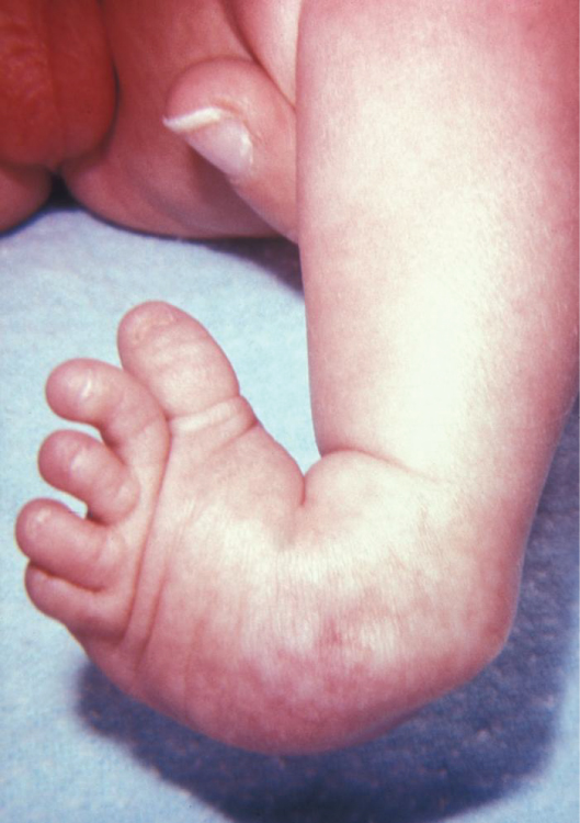 Anatomy & Physiology, Connexions Web site. Jun 19, 2013.